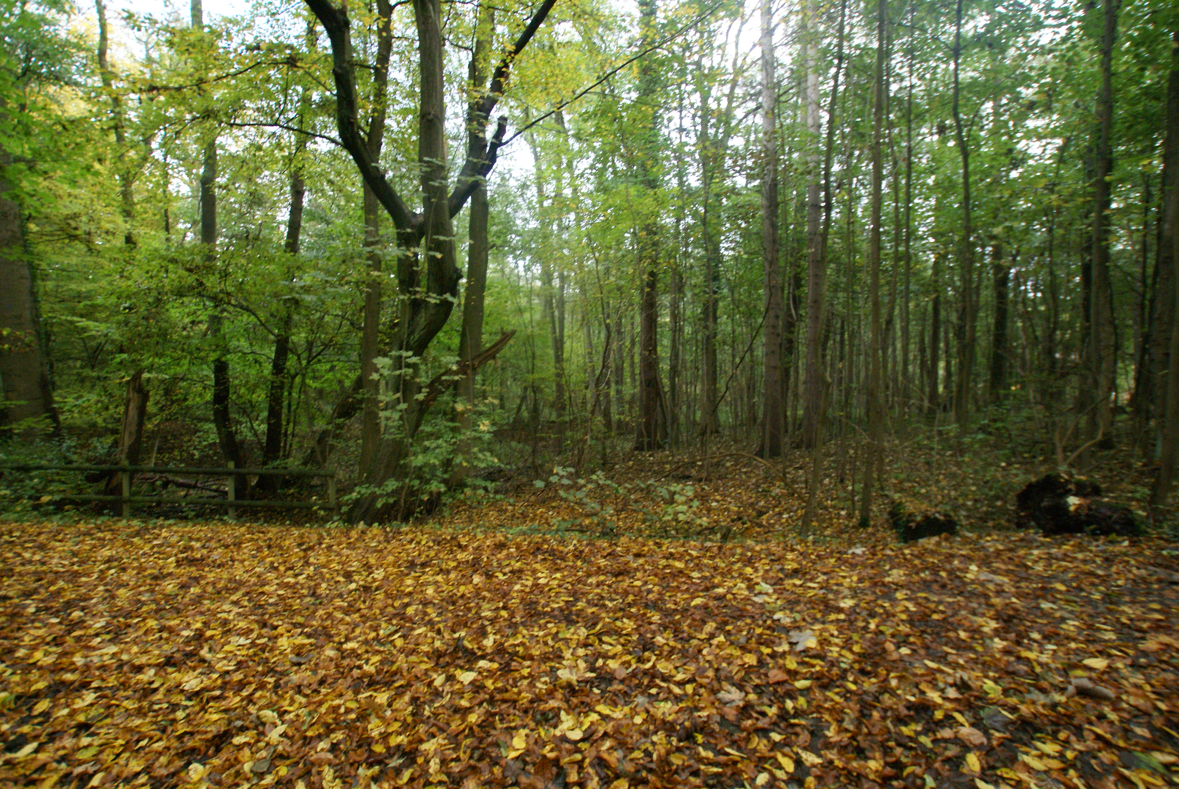 Hamburg (Ohlstedt), Germany: The valley of the river Drosselbek in the Wohldorfer Wald